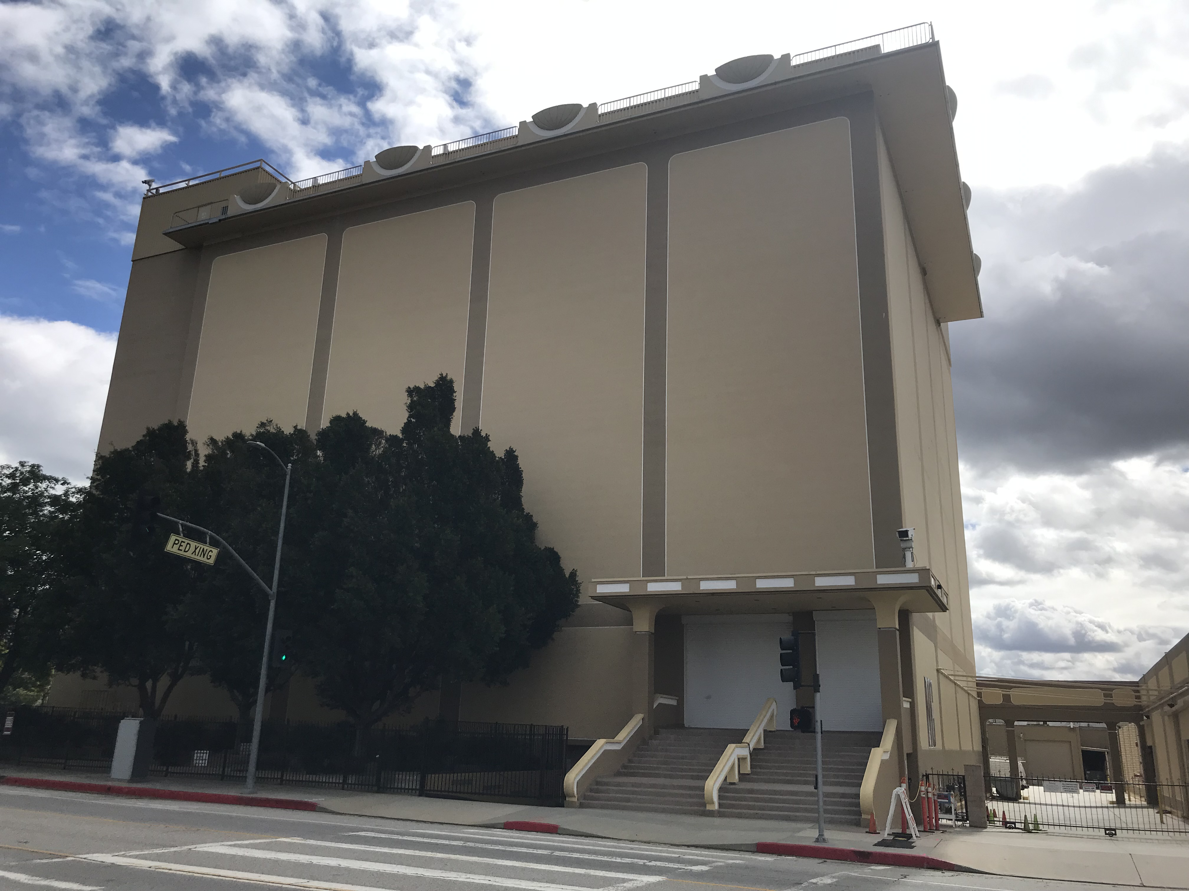 Exterior of Nethercutt Collection facing east from Bledsoe St.